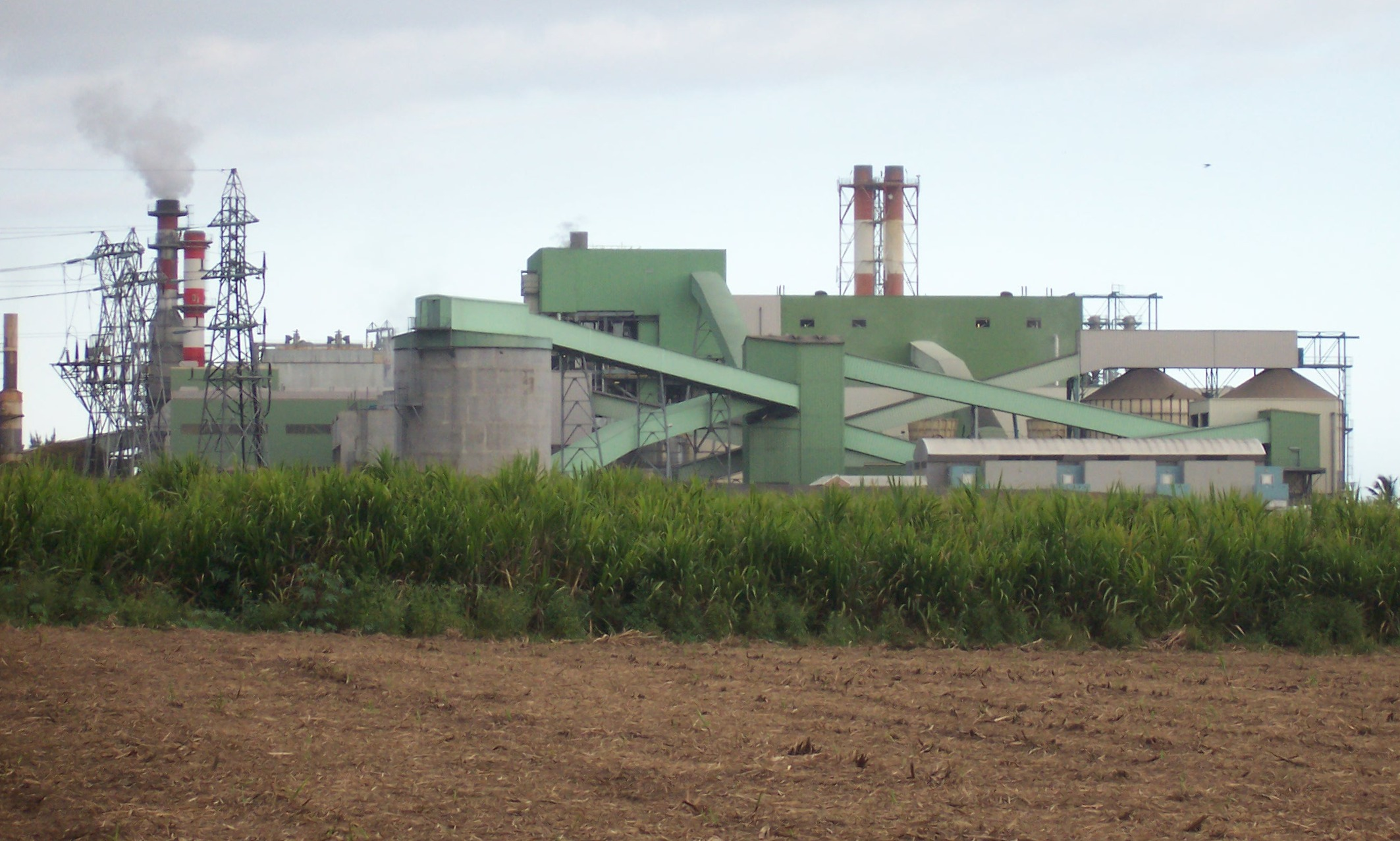 the sugarcane factory and the cogeneration bagasse/coal power plant of Gol (Saint-Louis, Réunion island